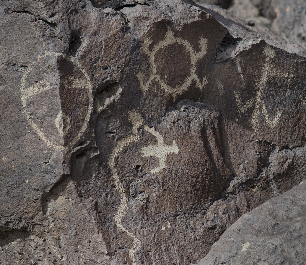 Yesterday I went out to Petroglyph National Monument, on the west side of Albuquerque. It's a nice place for a walk.